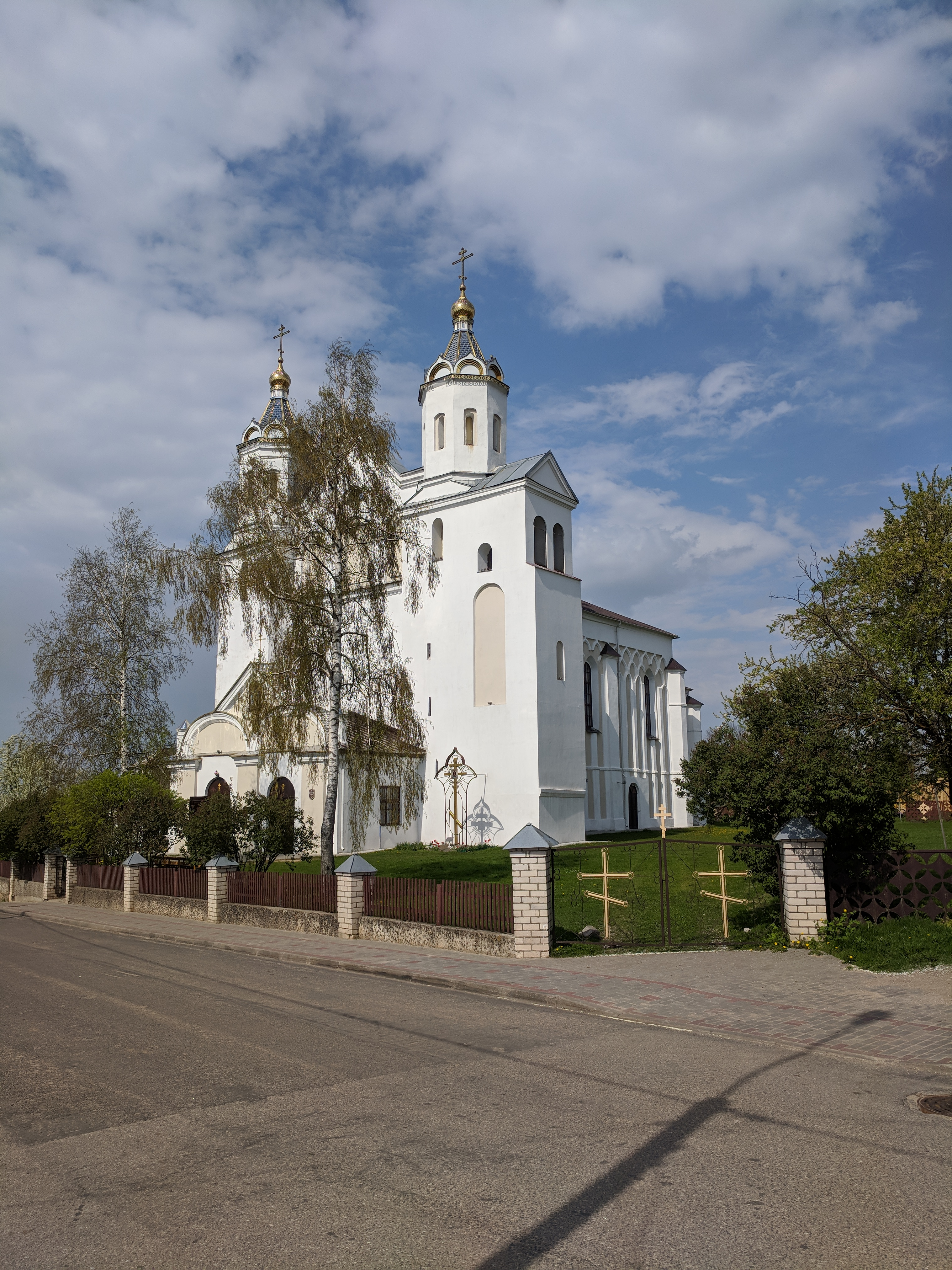 Church of Saints Boris and Gleb, Navahrudak